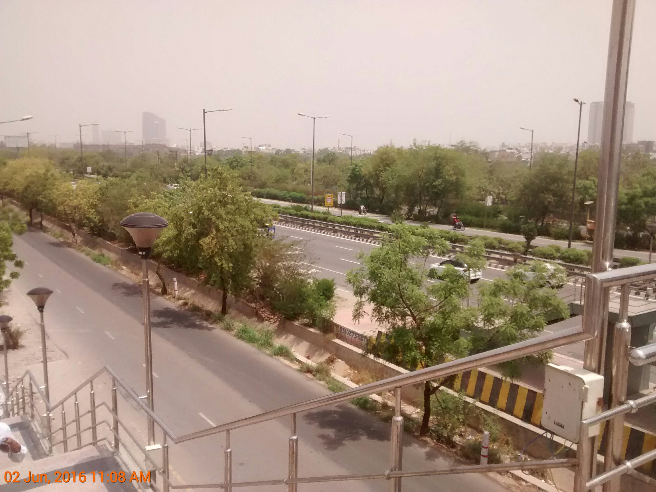 Delhi-Noida-Delhi expressway in front of Amity University, Noida.